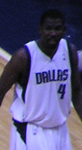 Michael Finley with the Dallas Mavericks, March 2005.